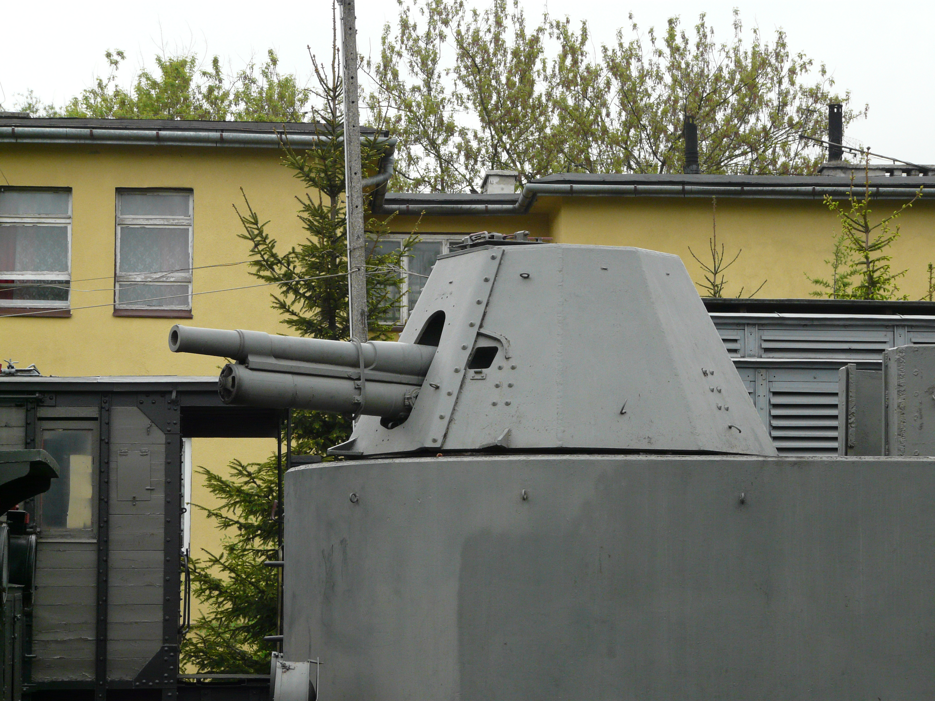 The German armoured motor railcar Panzertriebwagen 16 (PT 16) at Chabówka Rolling-Stock Heritage Park, Poland (temporary exhibition - owned by Museum of Railways in Warsaw